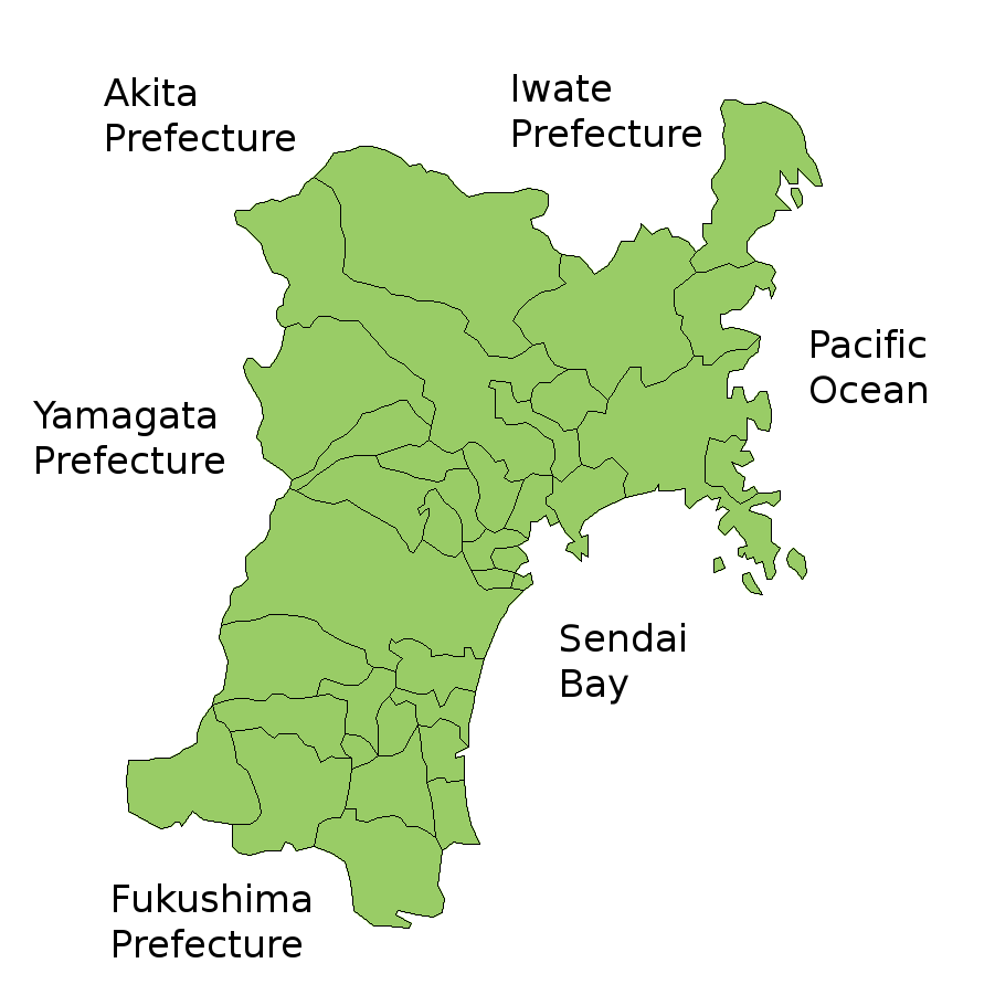 Map of Miyagi Prefecture, Japan. Thanks to Aoki Shigenobu and [1]. Colors from Image:TokyoMapCurrent.png by User:Fg2.